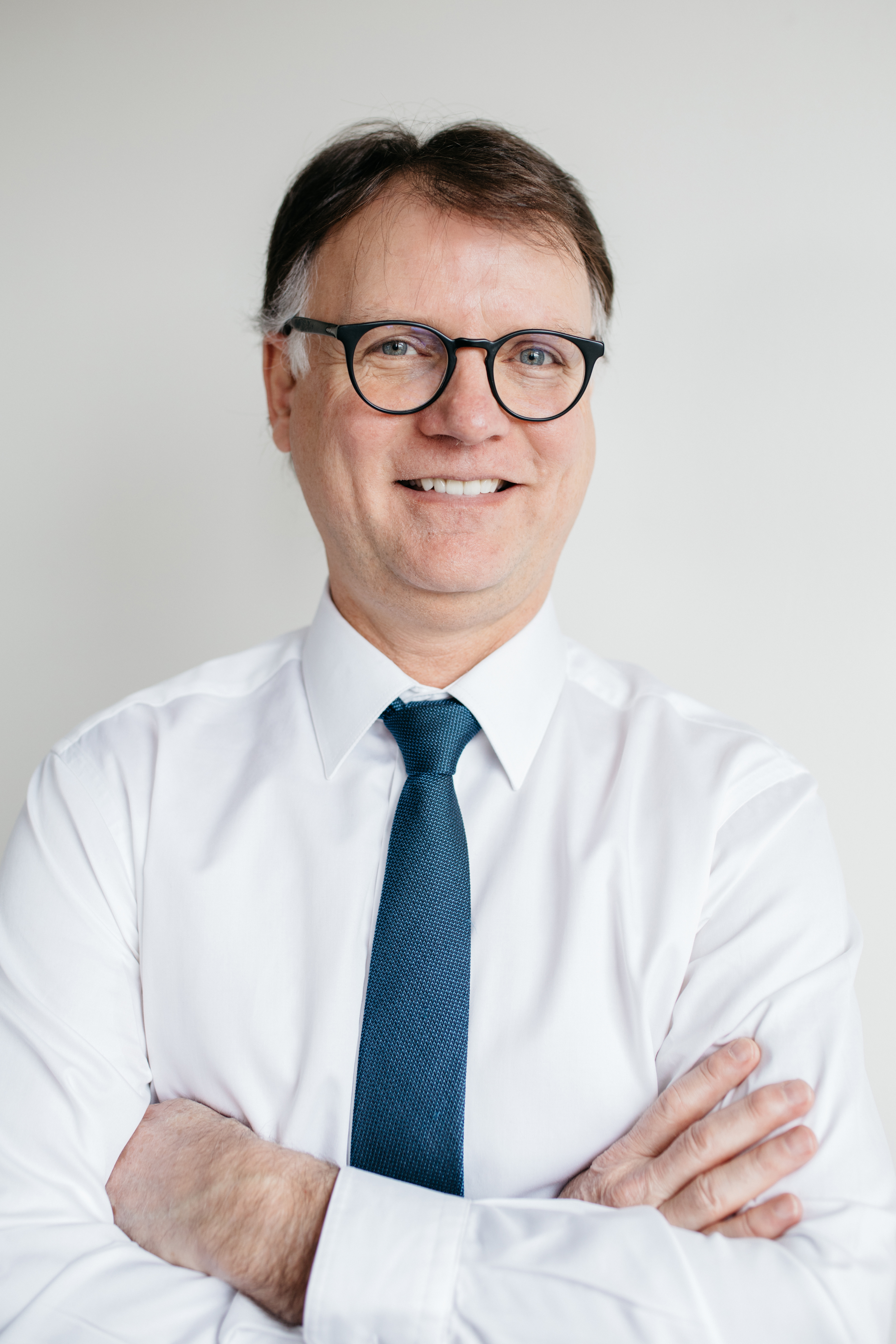 This is Mr. Jean-Marc Leger's photo, president of Leger.